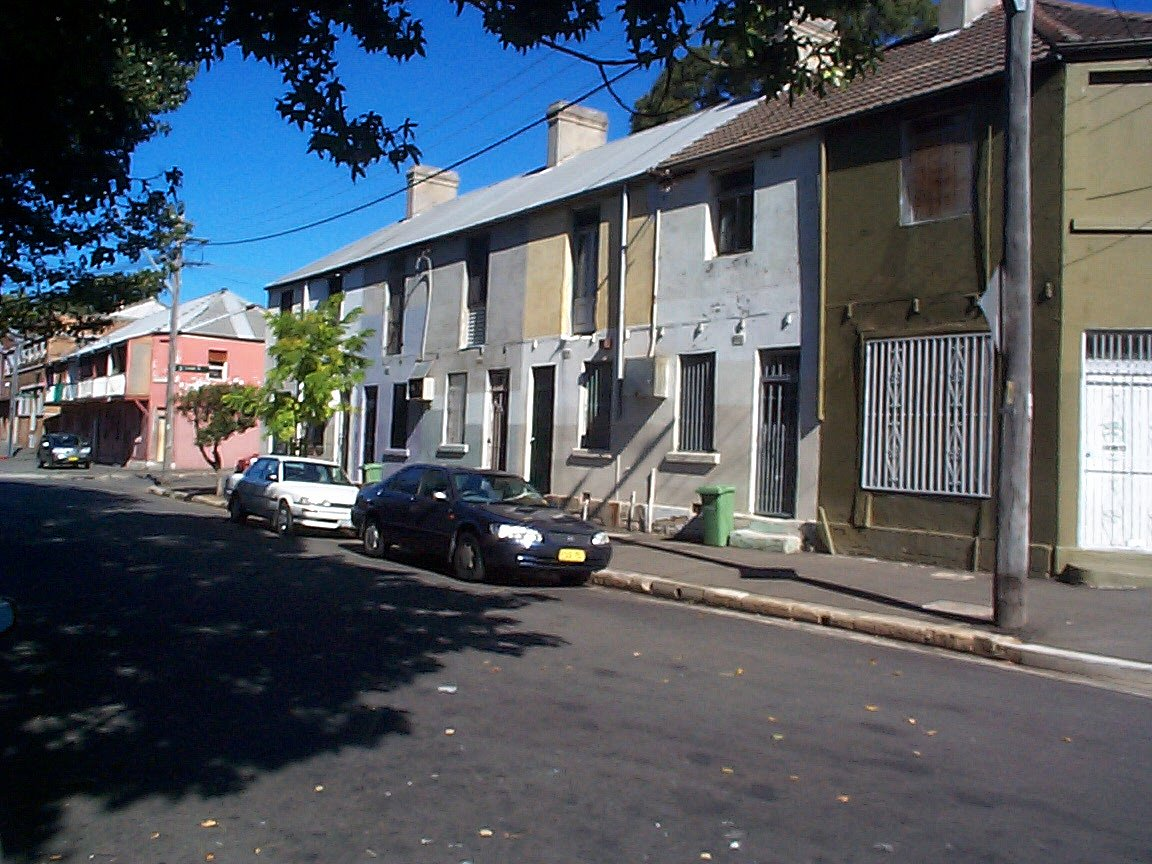 Photo taken by Michael Gardner, March 2007